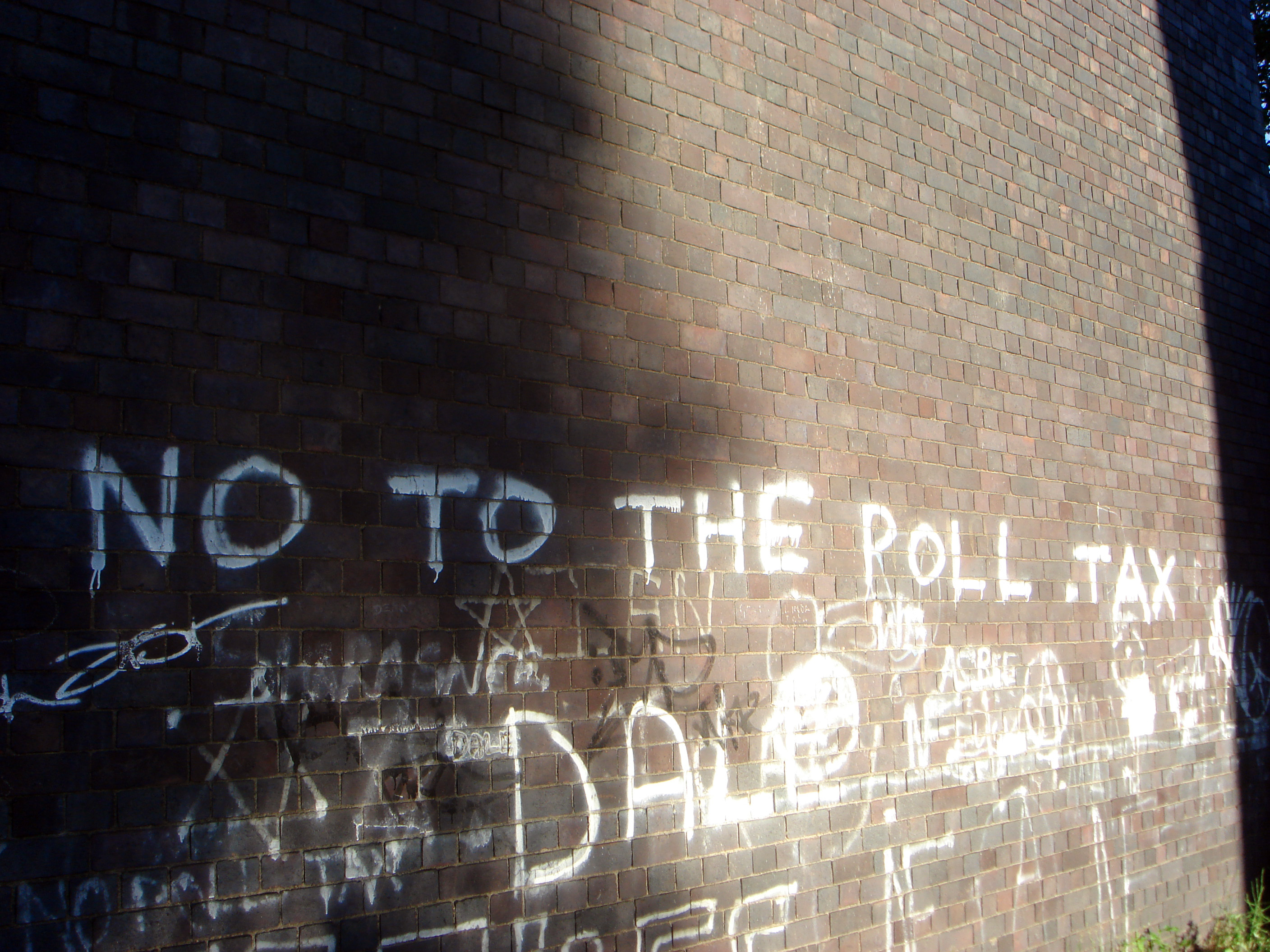 Old grafitti in a tunnel near Huddersfield, reading "No to the Poll Tax".